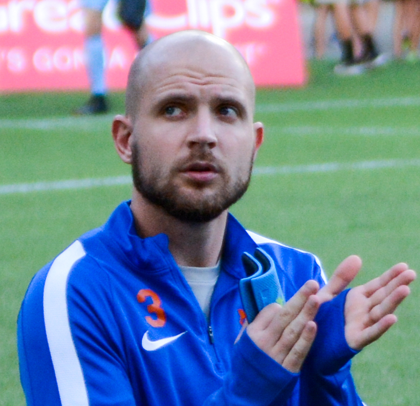 Tyler Polak, Danni König Taken at a Lamar Hunt U.S. Open Cup match between FC Cincinnati and Louisville City FC at Nippert Stadium in Cincinnati, Ohio on May 31, 2017.